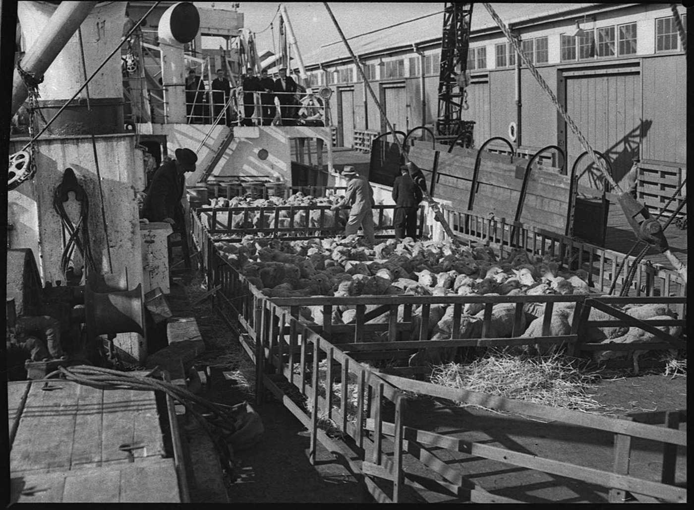 Loading sheep onto ship